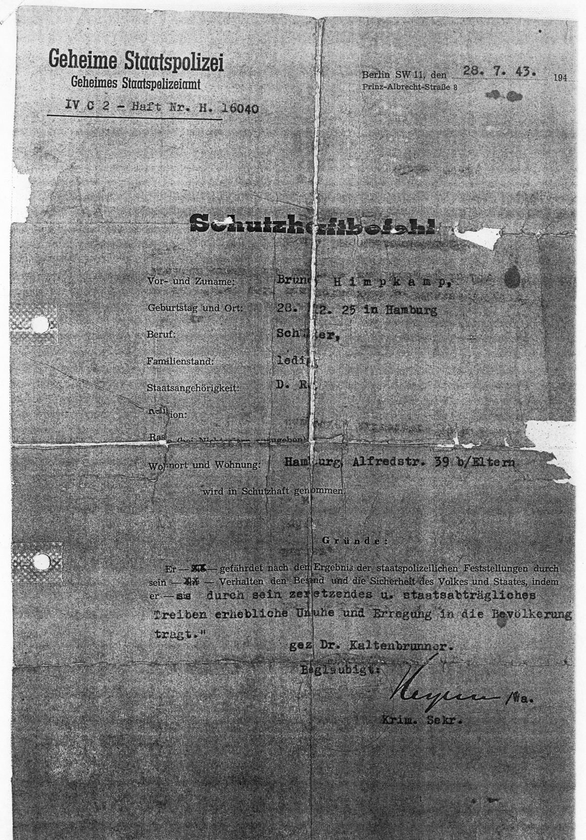 Gestapo Detention order for Bruno Himpkamp, signed by Kaltenbrunner